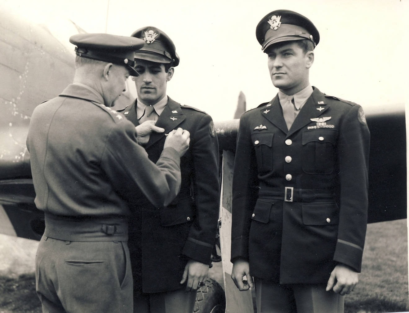 General Dwight D. Eisenhower awarding the Distinguished Service Cross to Dominic Salvatore Gentile (left) and Donald Blakeslee